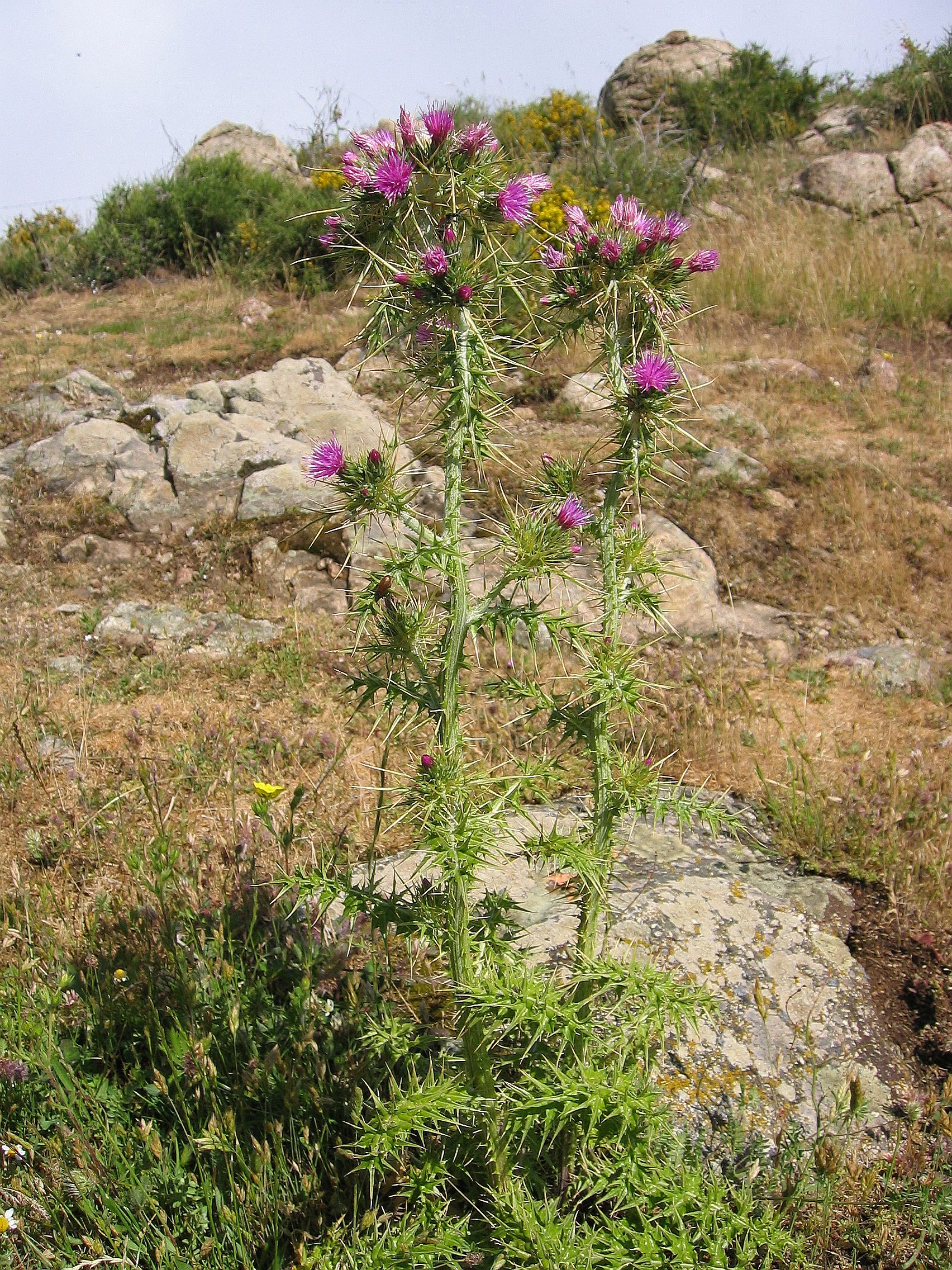 Carduus cephalanthus, near Monte Tolu ~1300, Corse